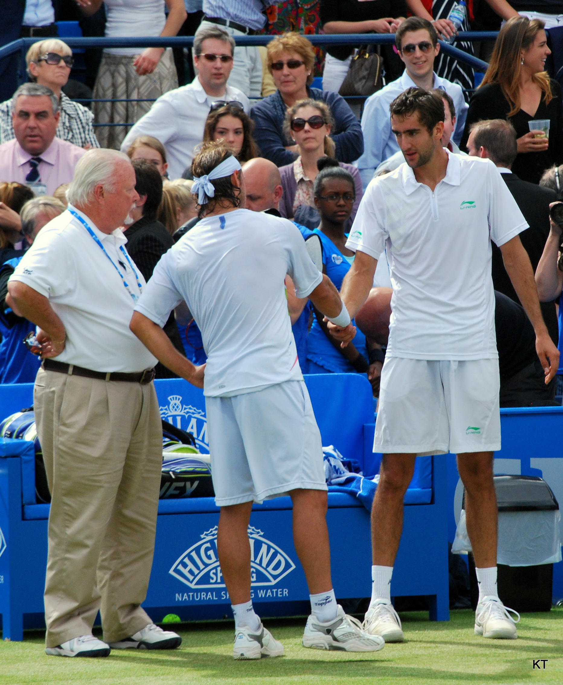 The supervisor, David Nalbandian ans Marin Cilic (winner of the 2012 AEGON Championships).